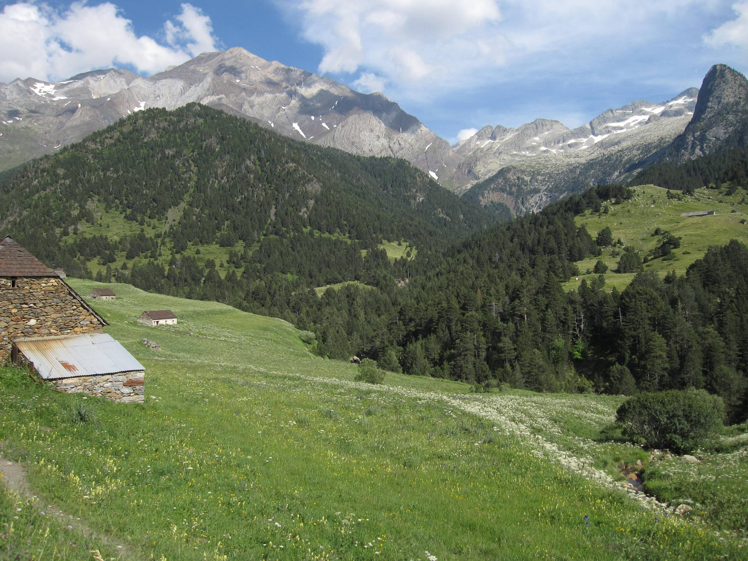 Posets massiff seen from Viadós (Spanish Pyrenees).